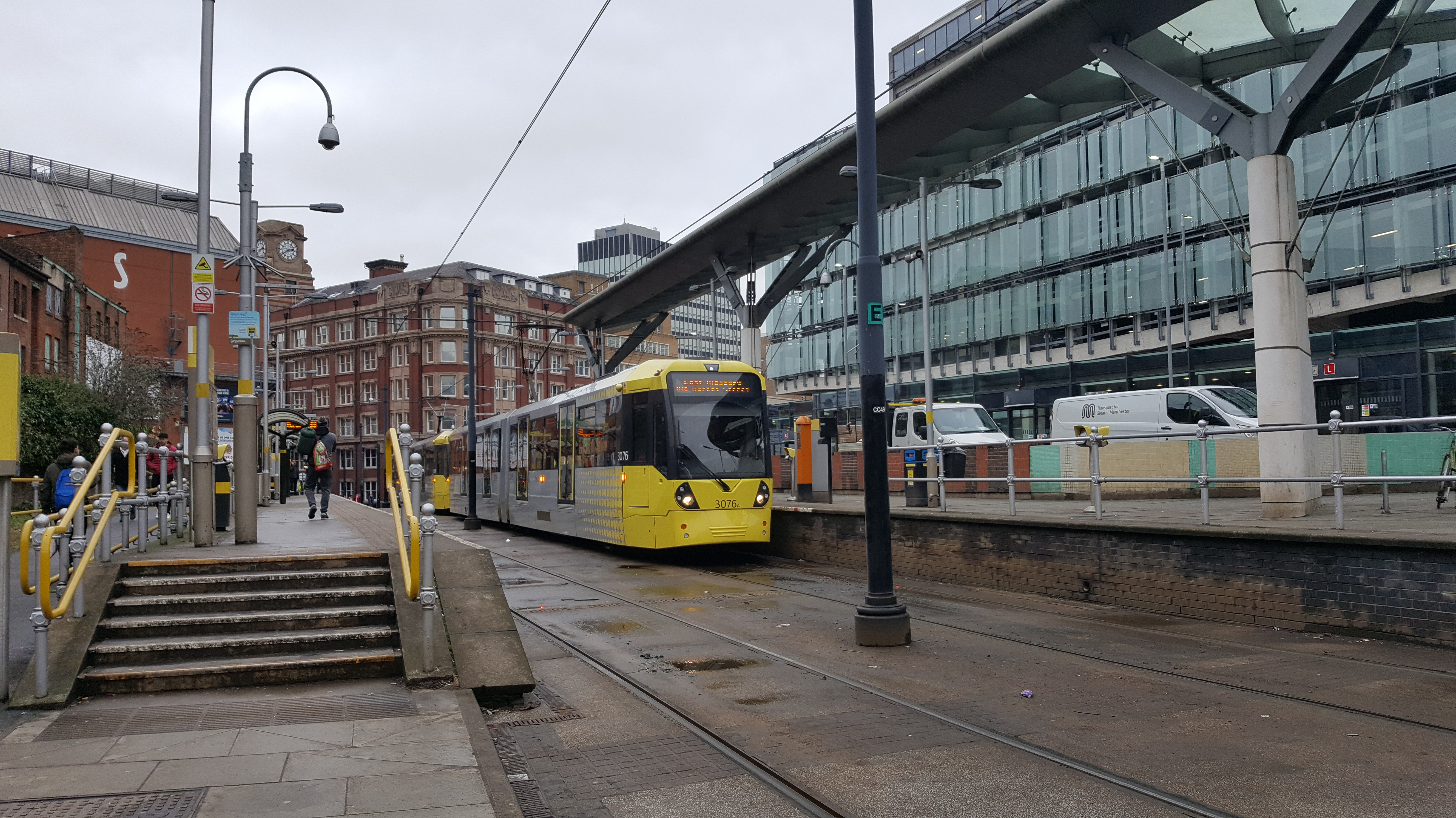 An M5000 at Manchester Metrolink Shudehill tram stop.